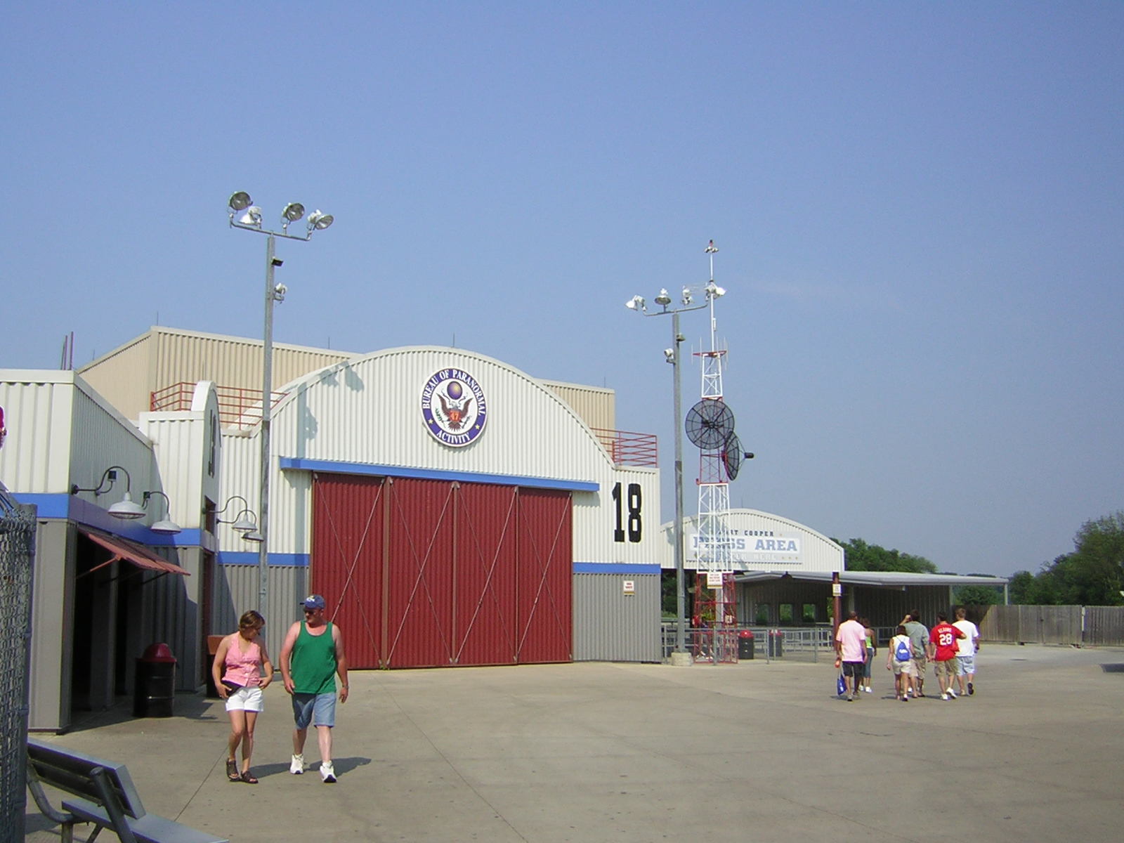 Flight of Fear's exterior.